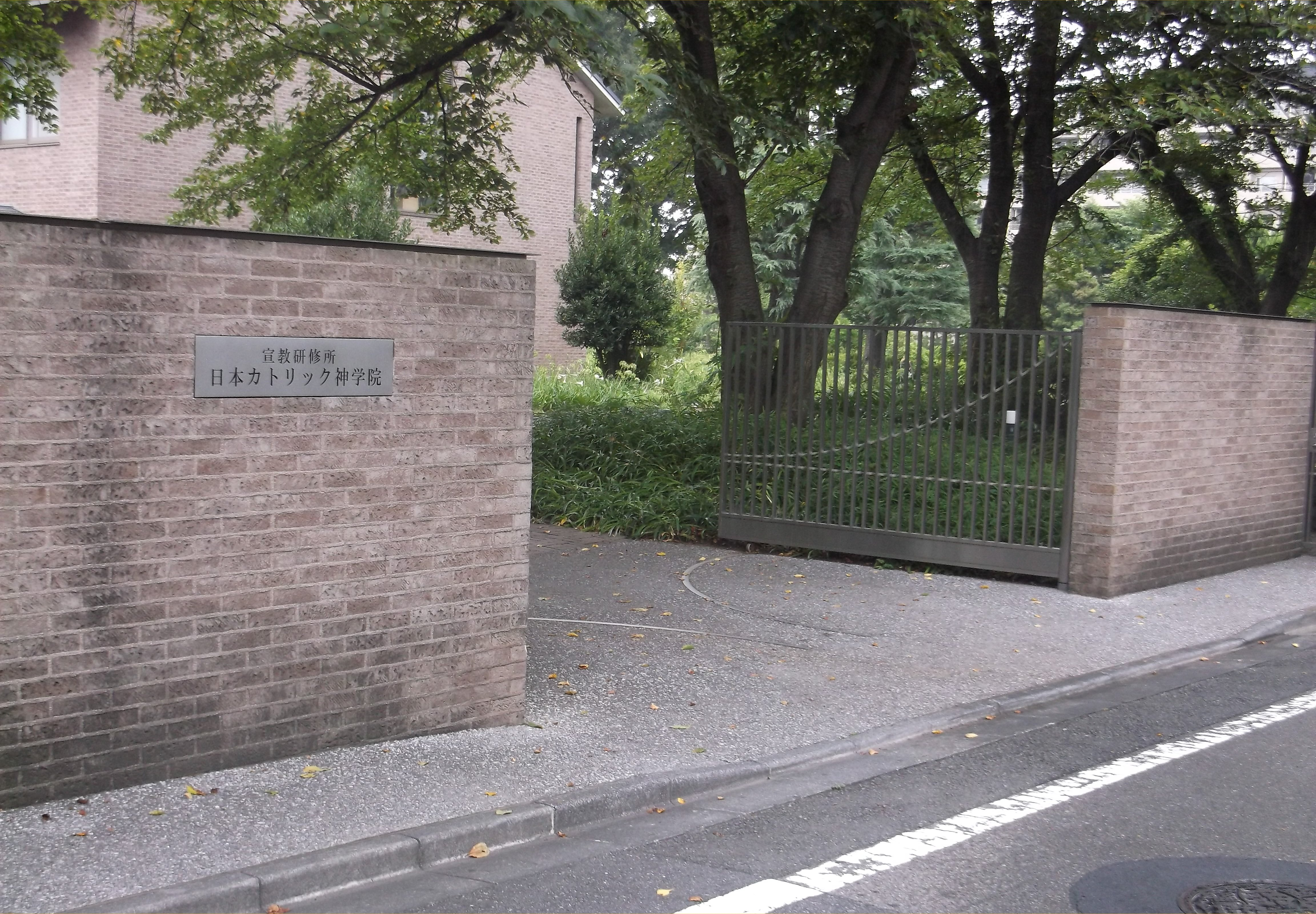 A photo of the entrance of Japan Catholic Seminary Tokyo Campus.Sekimachihigashi,Nerima-ku,Tokyo,Japan.